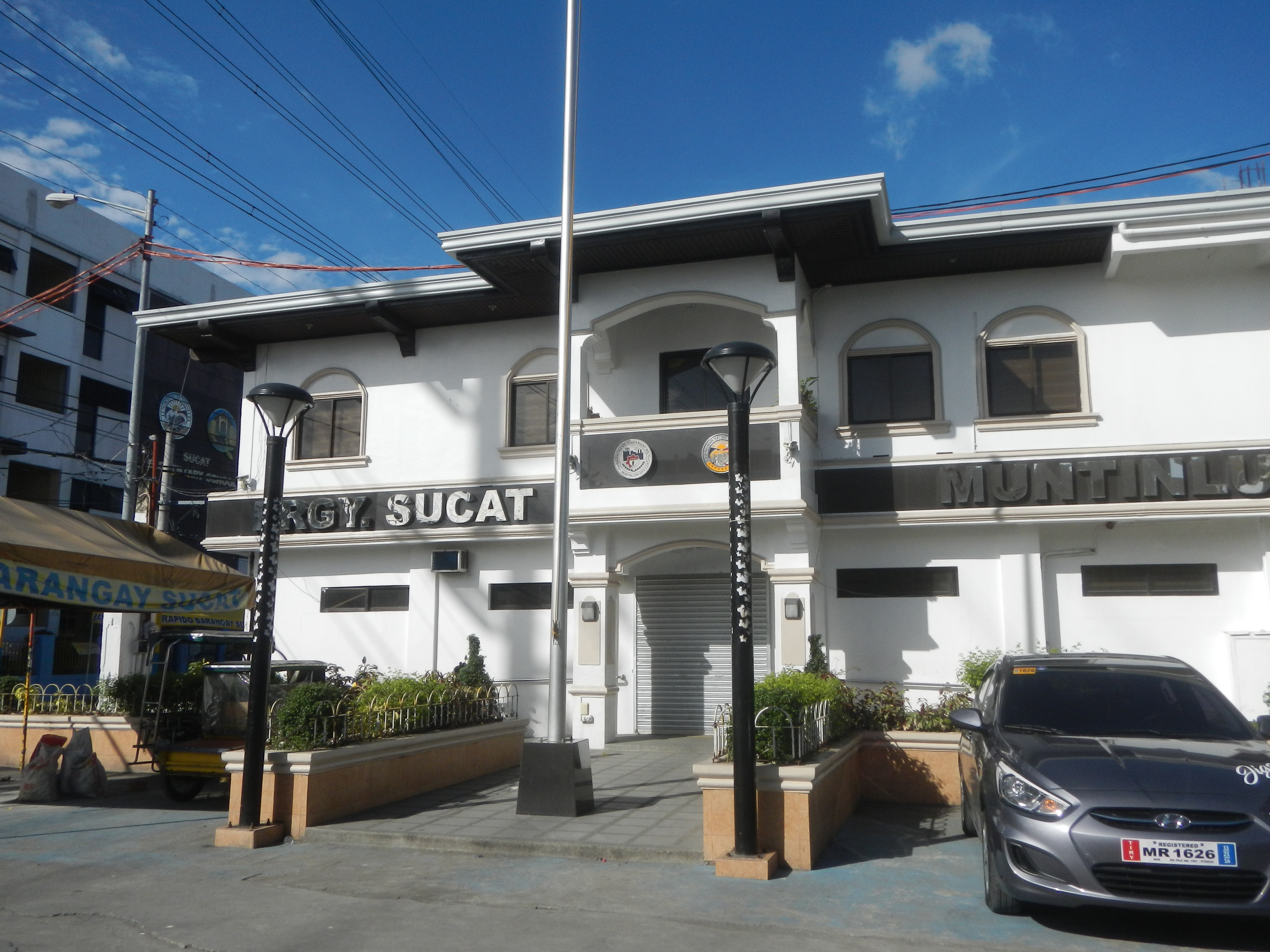 Laguna de Bay Sucat People' Park, Muntinlupa City - Laguna de Bay JRF Sucat Covered Court, Muntinlupa City in or from and to Dr. A. Santos Avenue formerly called (and still known locally as) Sucat Road Barangay Sucat 14°27'19"N 121°2'51"E City of Muntinlupa (Note: Judge Florentino Floro, the owner, to repeat, Donor Florentino Floro of all these photos hereby donate gratuitously, freely and unconditionally Judge Floro all these photos to and for Wikimedia Commons, exclusively, for public use of the public domain, and again without any condition whatsoever).